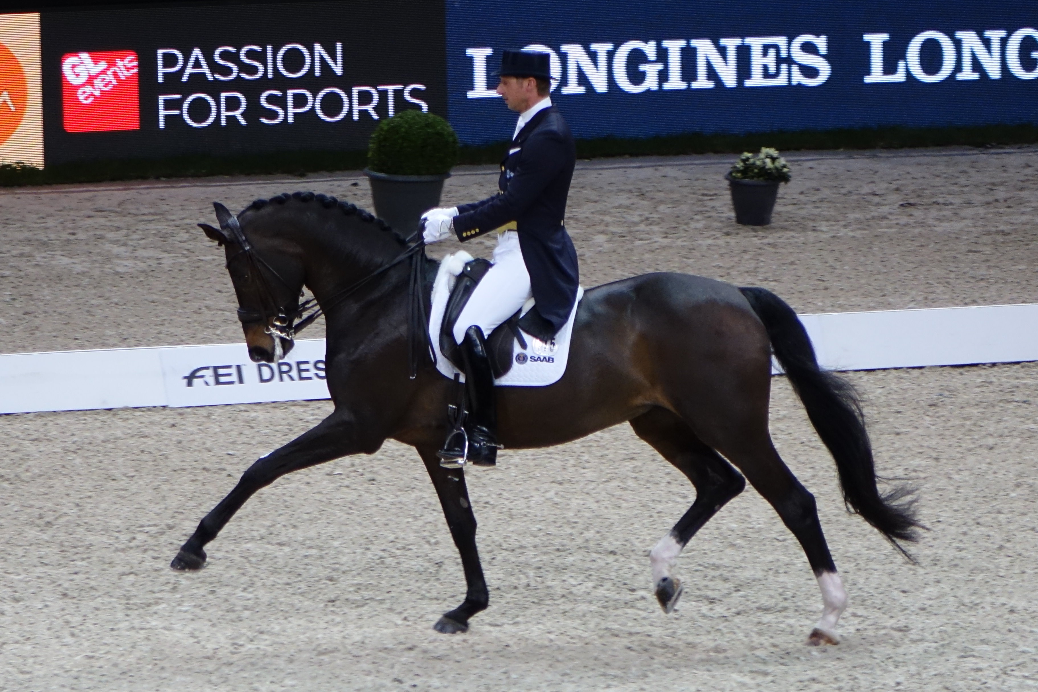 FEI WORLD CUP DRESSAGE FINALS PARIS 2018 Patrik Kittel & Deja (SWB)